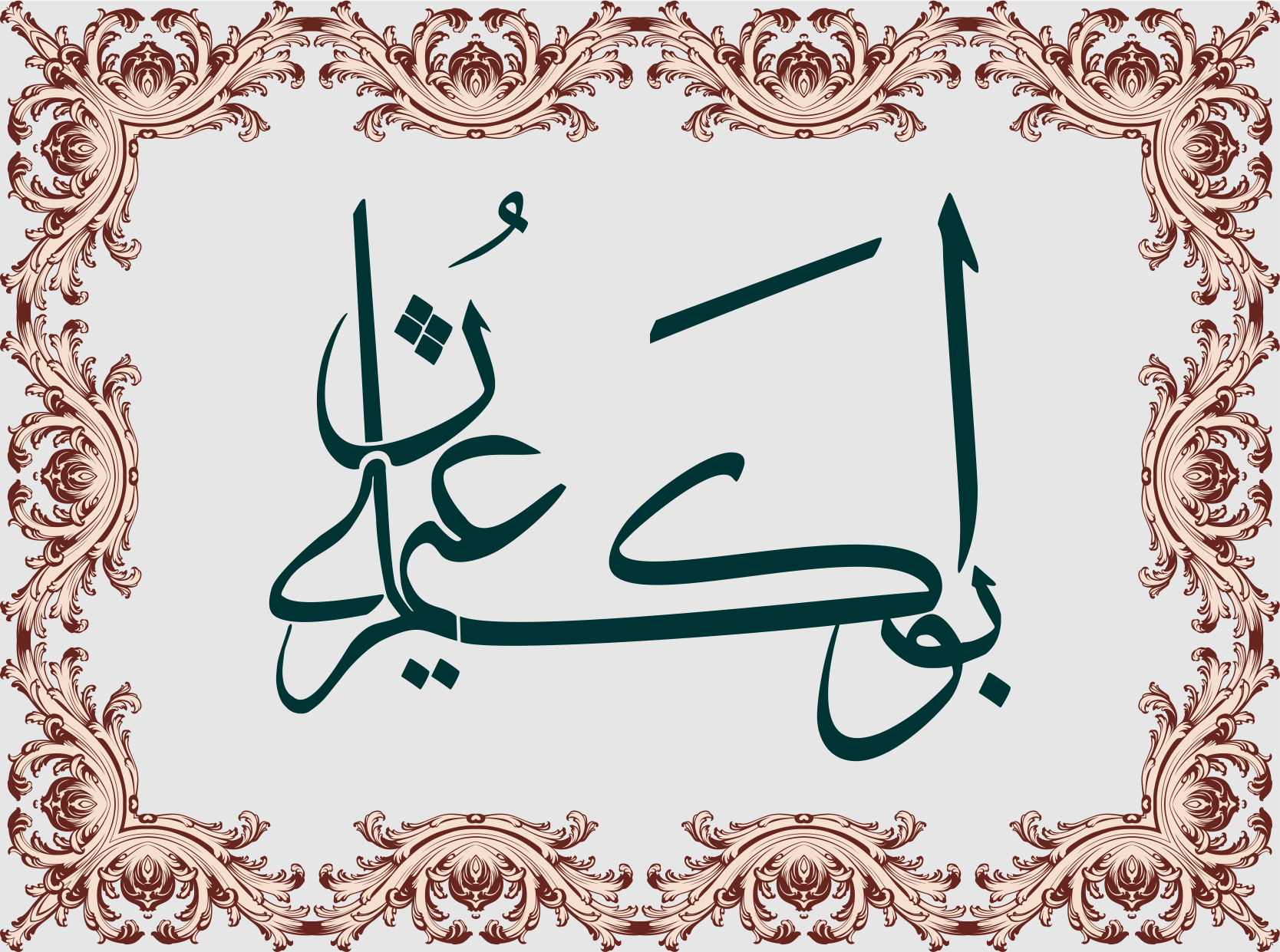 An Ottoman Calligraphy which dates back to 1727 AD. This motif formed from names of Rashidun Caliphs.